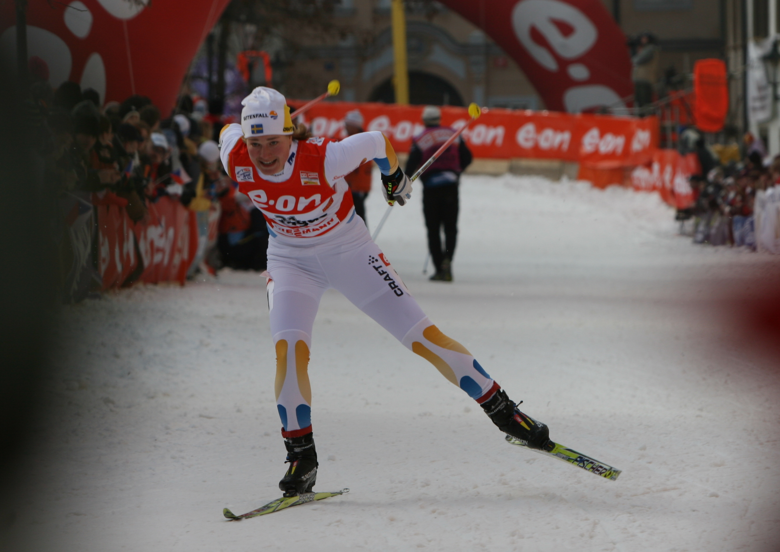 Jenny Hansson, Swedish cross country skier, competing in Tour de Ski in Prague